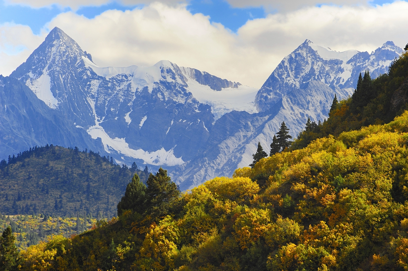 Baxoi (Pashoe) County, southeastern Tibet